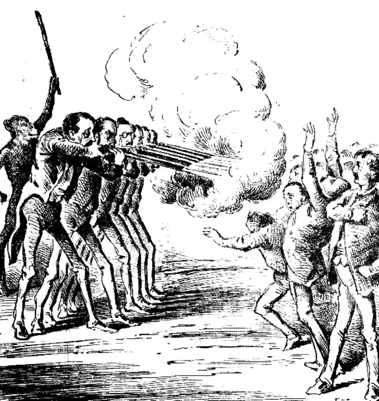 Massacre by troops loyal to the Epureanu Government, alleged to have taken place in the city of Piteşti, during the 1870 elections. This cartoon, published in the oppositionist newspaper Ghimpele, accuses government officials of having purposefully aimed for the hearts of Piteşti protesters. Their leader is the gibbon "Scarlat", holding up a baton; he personifies the monarch, Carol I (as per Silvia Marton, "Republica de la Ploiești" și începuturile parlamentarismului în România, pp. 167–169. Bucharest: Humanitas, 2016. ISBN 978-973-50-5160-0).